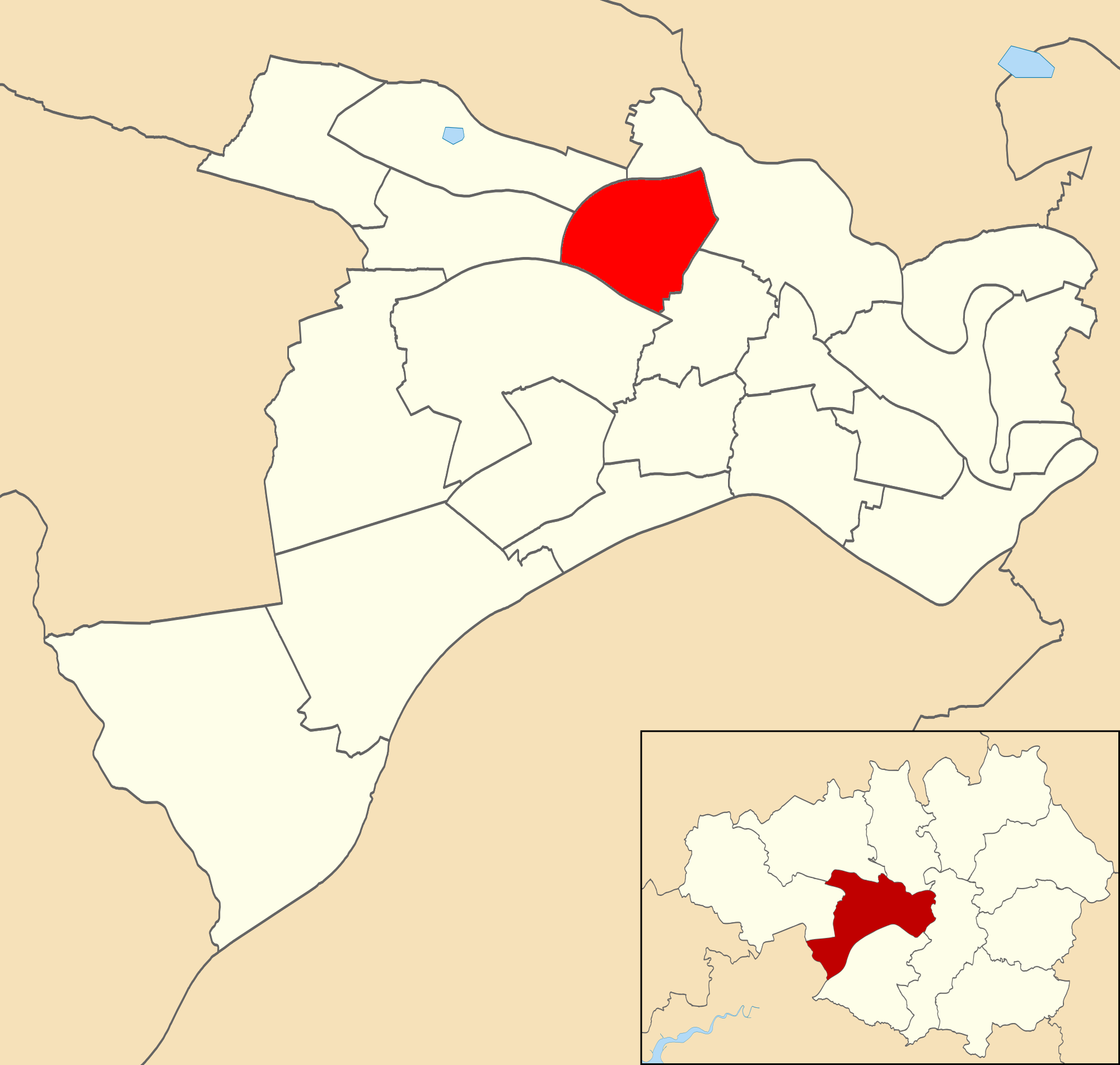 Map showing location of Swinton North ward within Salford City Council.